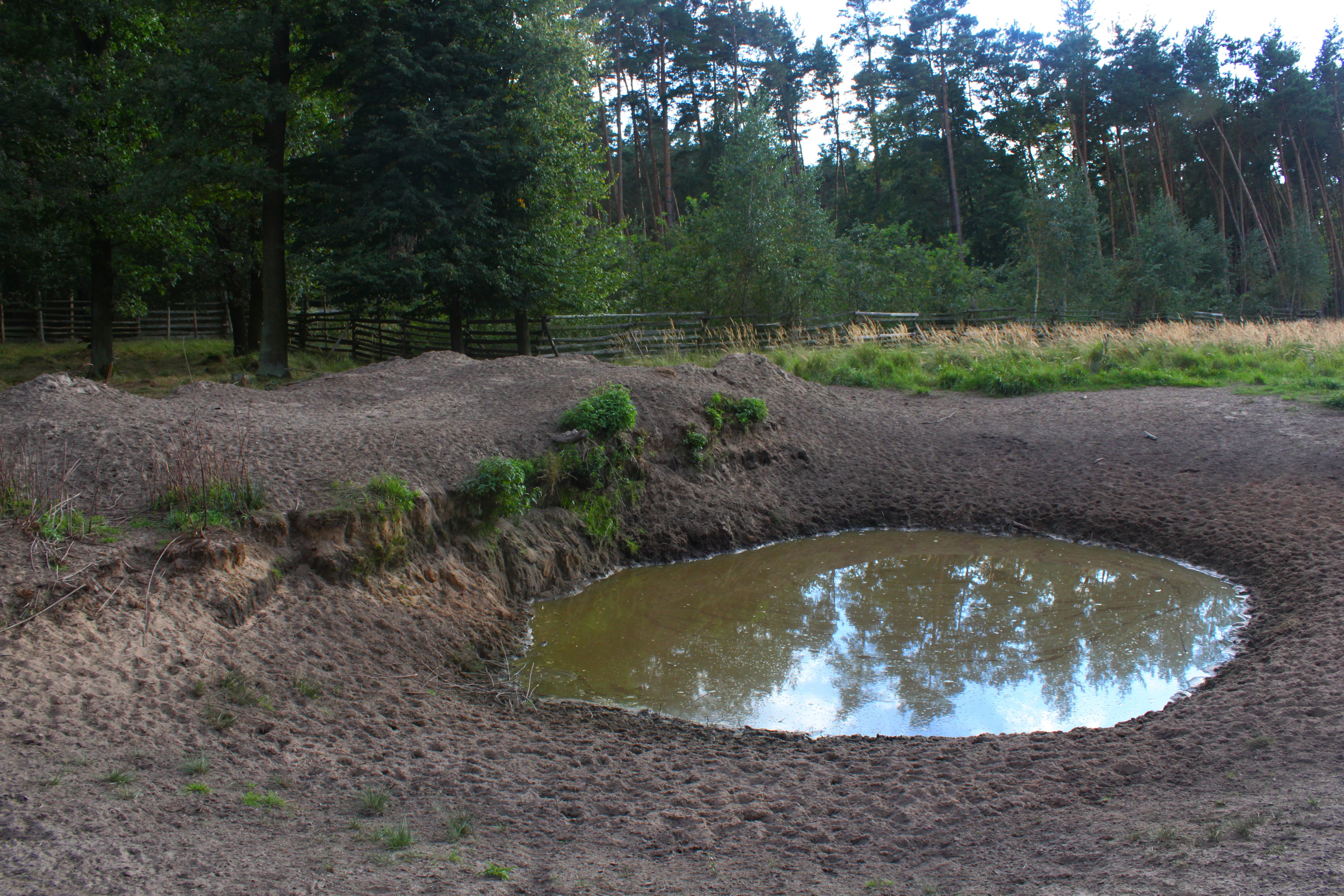 Nature reserve "Duny u Sváravy" in Pardubice District, Czech Republic. Sand dunes with a pine tree forest and some remaining sand loving (psammophilic) vegetation.